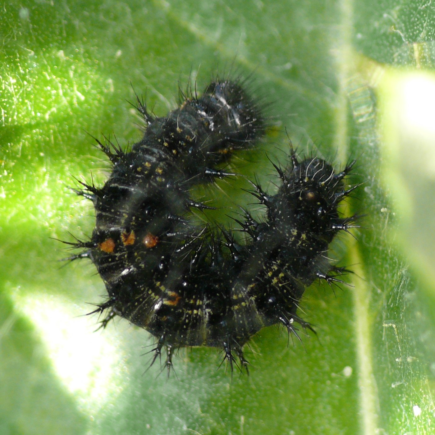 Young caterpillar aof Painted Lady